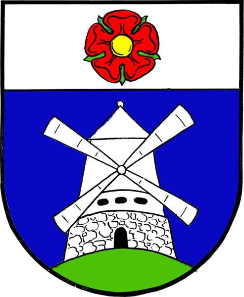 Coats_of_arms_of_Příčovy, Příbram District, Czech Republic